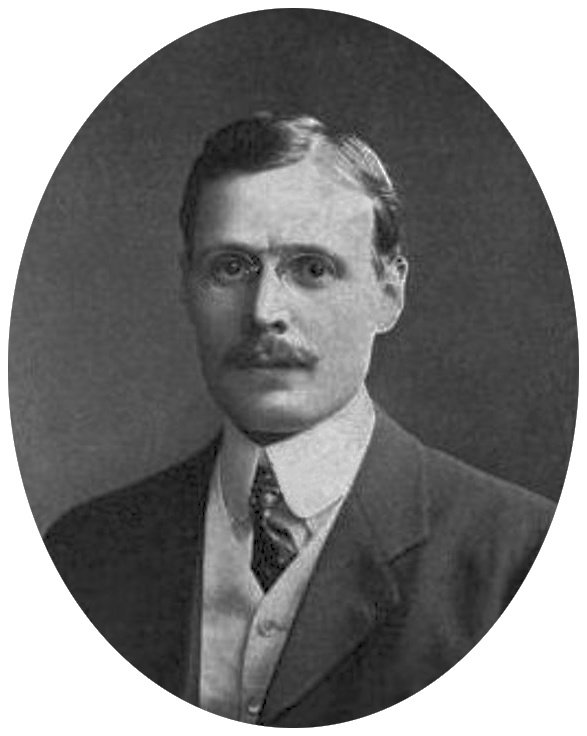 George Thomas Moore (1871–1956) was a U.S. botanist, who specialised in phycology, the study of algae. Moore was the director of the Missouri Botanical Garden in St. Louis, Missouri from 1912 to 1953.[1] Original photo caption: From a photograph by C.M. Gilbert DR. GEORGE T. MOORE In charge of the Laboratory of Plant Physiology, United States Department of Agriculture